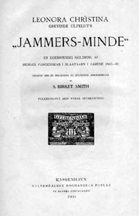 Jammersminde (1838-1919) release, without commentary (1900) Copenhagen.